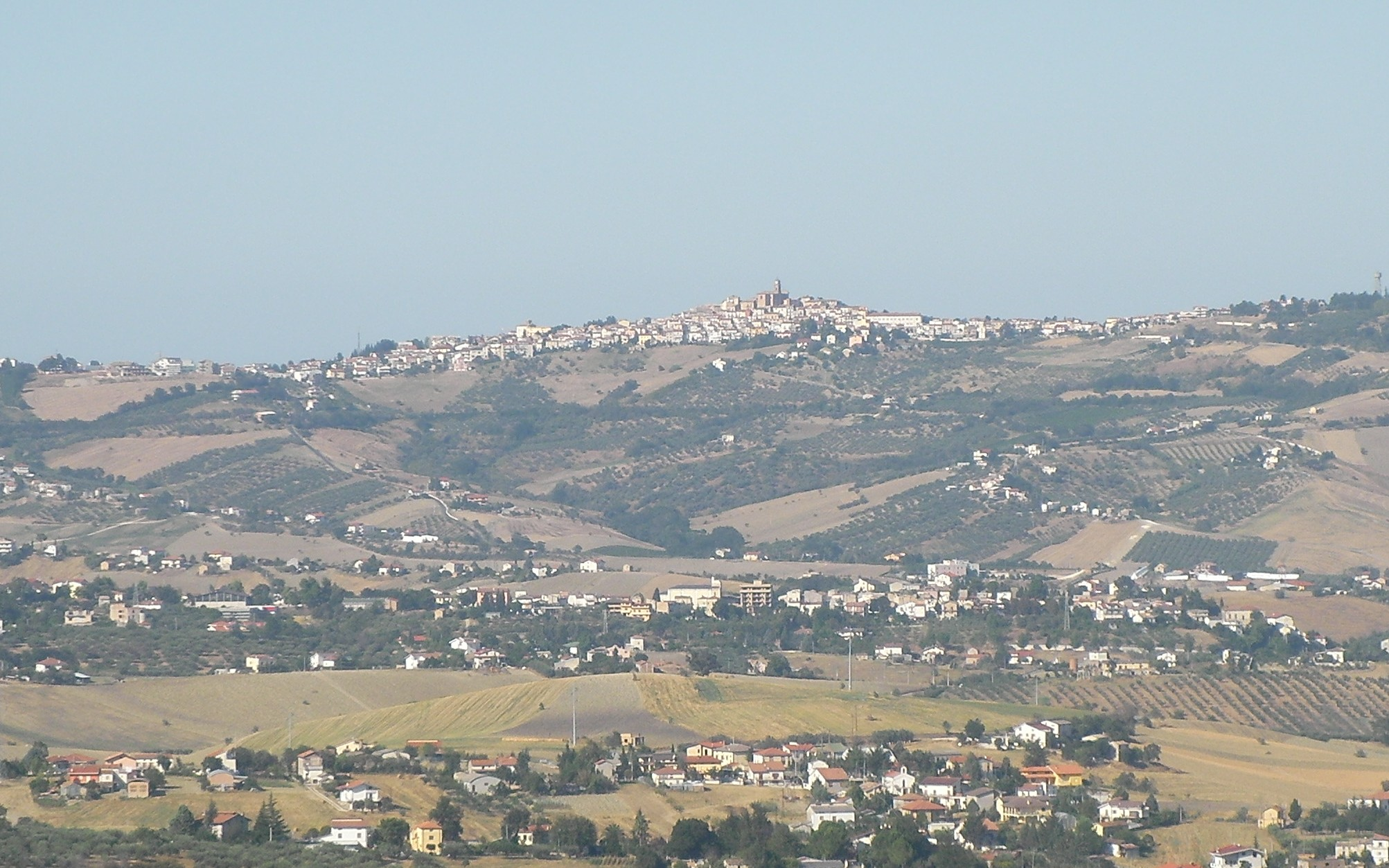 View of Castel Frentano from Casoli.